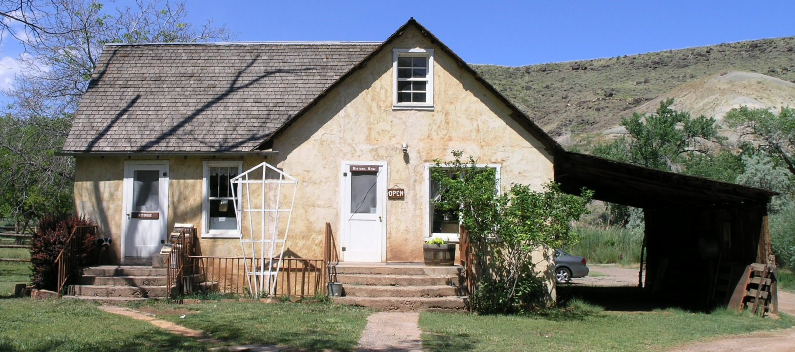 Historic Gifford farm, Fruita, Utah, USA. Fruita is a ghost town inside Capitol Reef National Park Picture taken by Daniel Mayer in late June 2005.